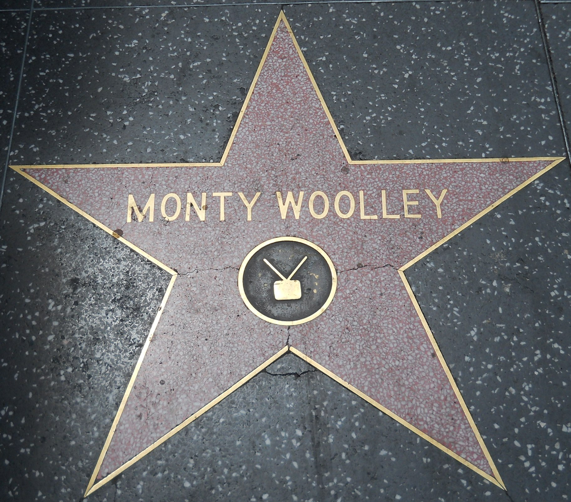 Monty Woolley's star on the Hollywood Walk of Fame